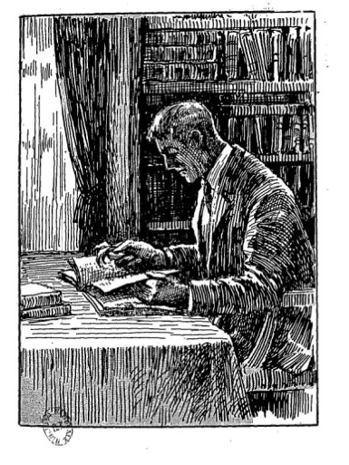 Illustration 04 for Raymond Roussel's Nouvelles Impressions d'Afrique.